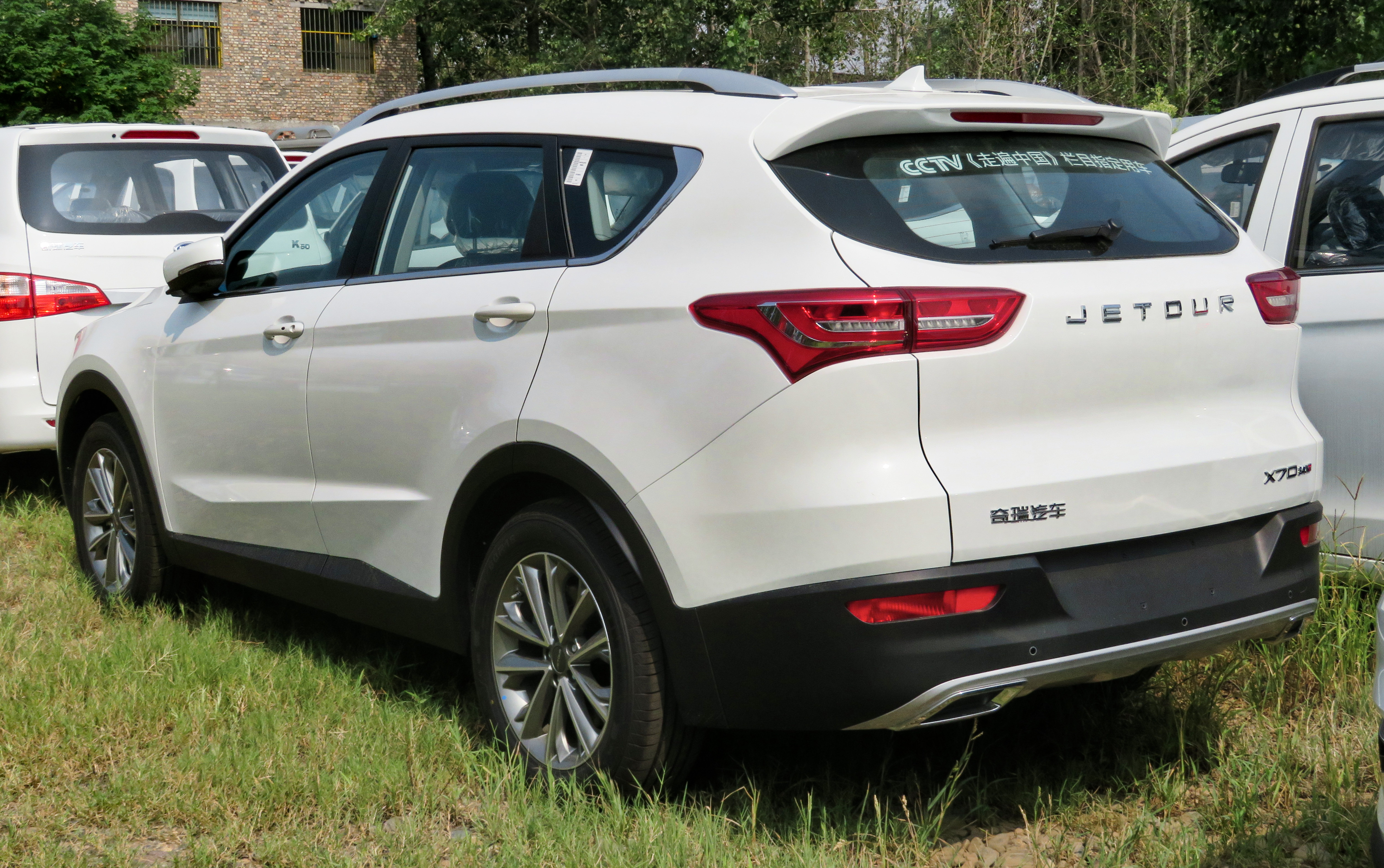 A 2018 Chery Jetour X70 photographed at Guanlinzhen, in Luoyang, Henan province, China